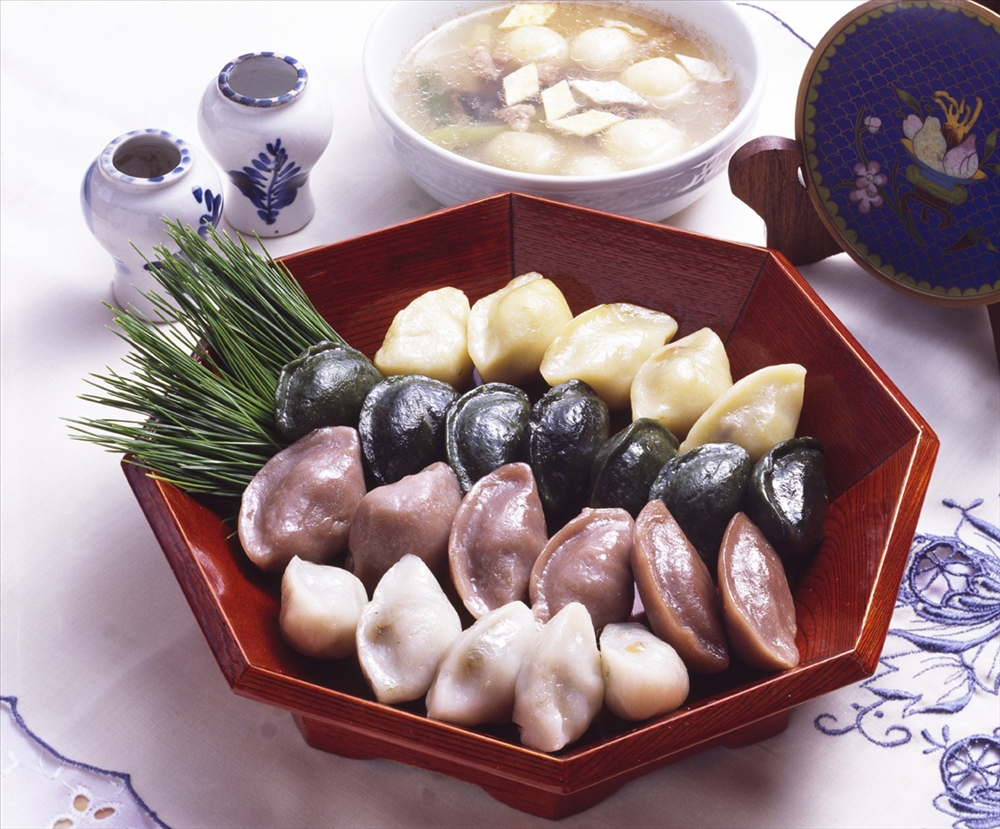 songpyeon, crescent moon rice cakes. Songpyeon is a special Chuseok eatery filled with a paste of chestnut, jujube, sesame seeds and red beans.